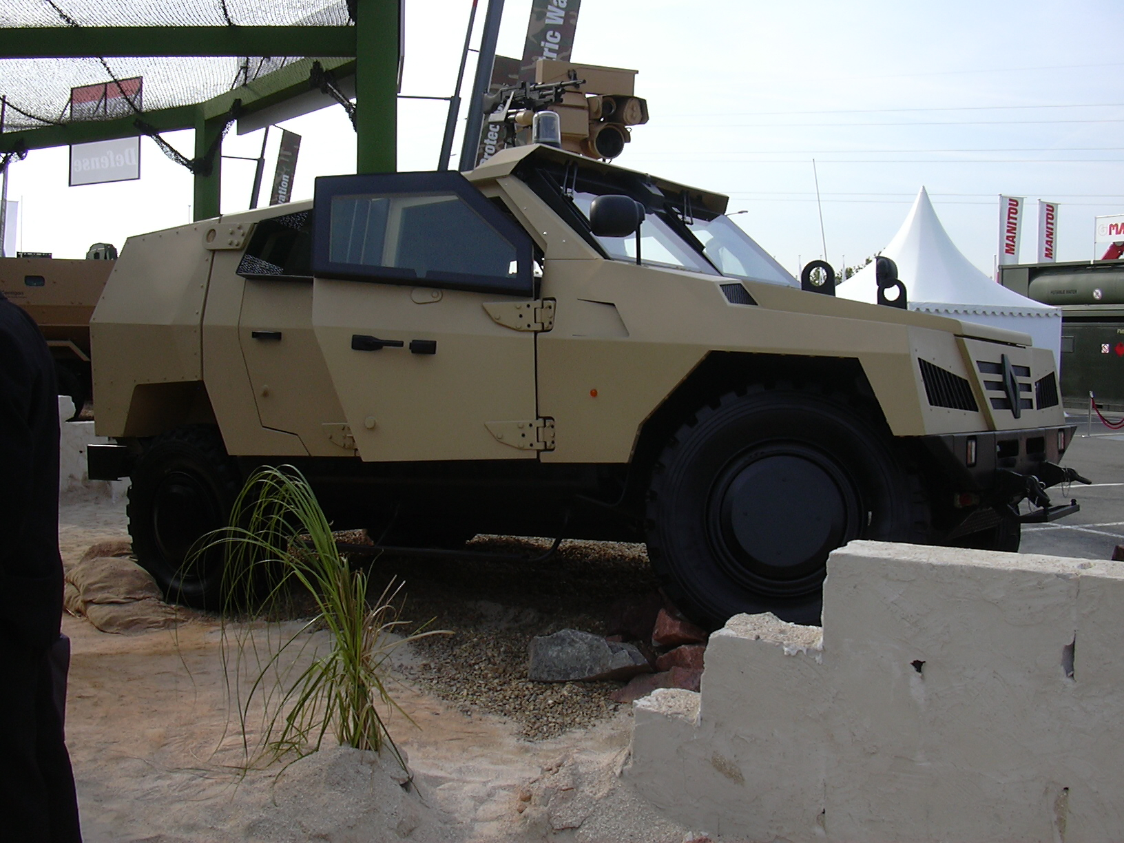 The Renault Sherpa HI at the 2008 Eurosatory exhibition.